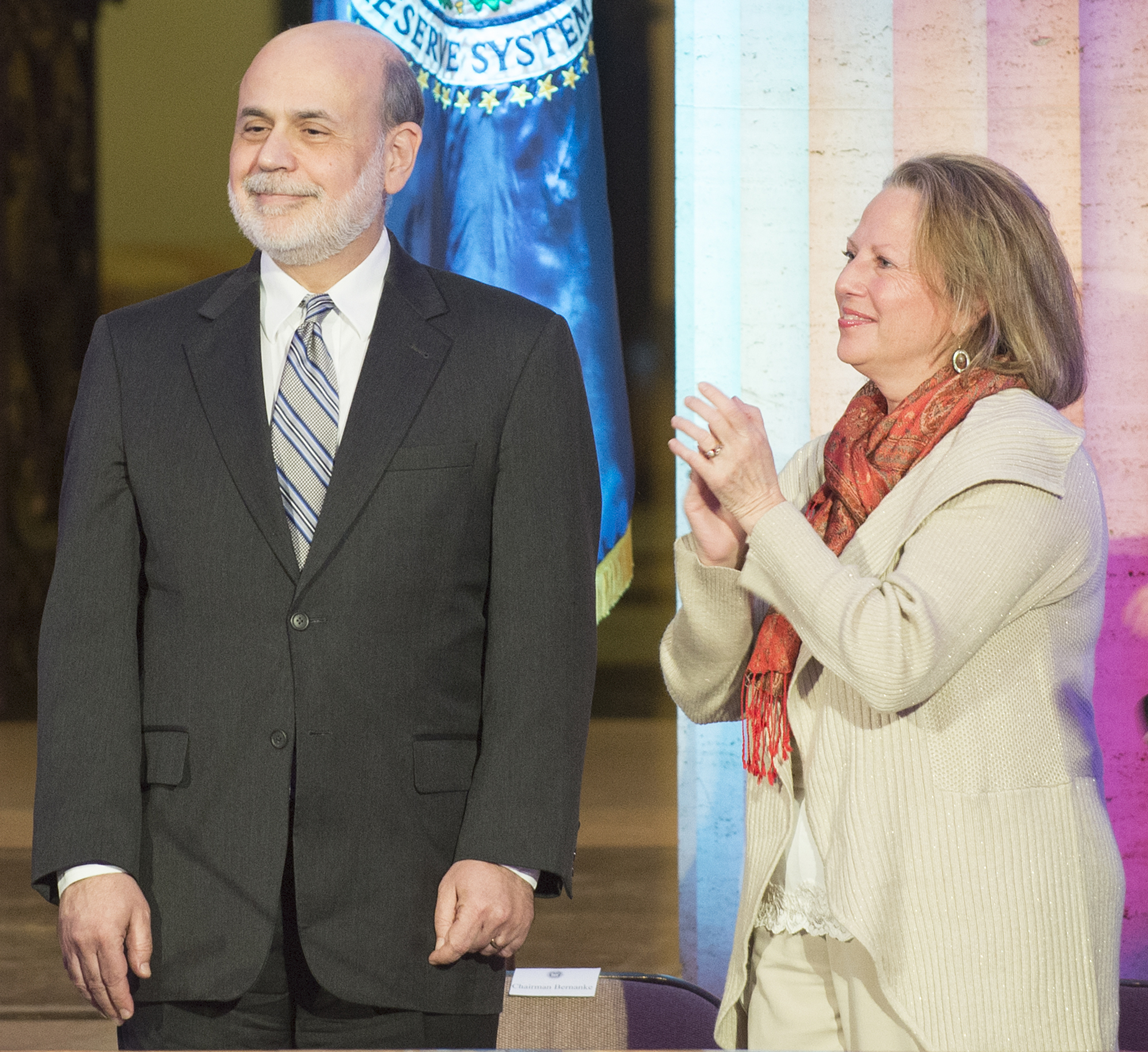 Chairman Ben S. Bernanke smiles alongside his wife, Anna, and Vice Chair Janet L. Yellen at a farewell reception held at the Marriner S. Eccles Federal Reserve Board Building in Washington, D.C. on January 30, 2014.